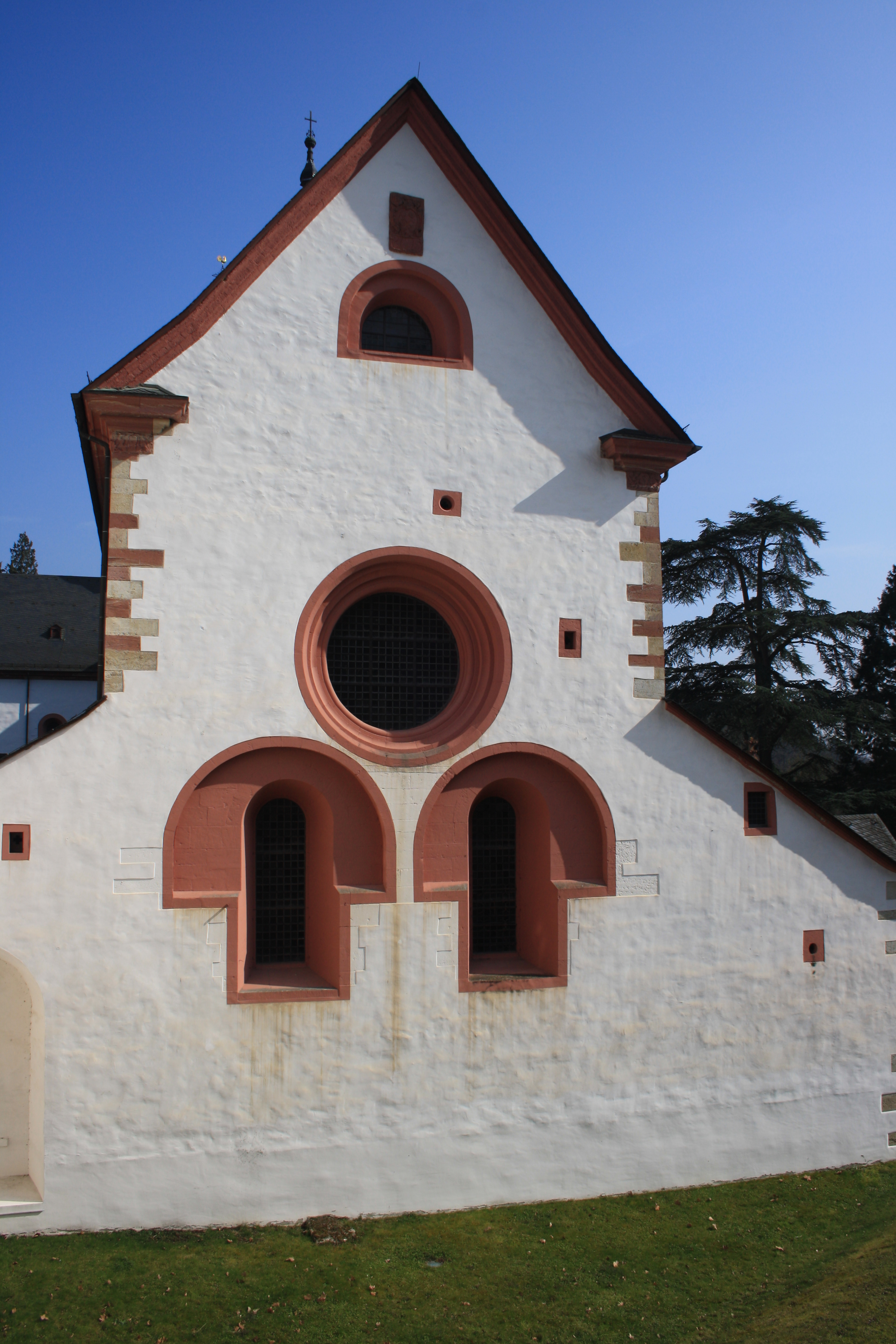 Monastery Eberbach, Germany, Church